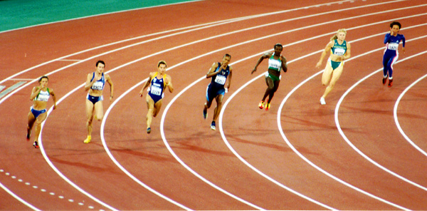 Marion Jones womens200_stadium athletics track and field athlétisme Women's 200m round 2. sydney olympic games